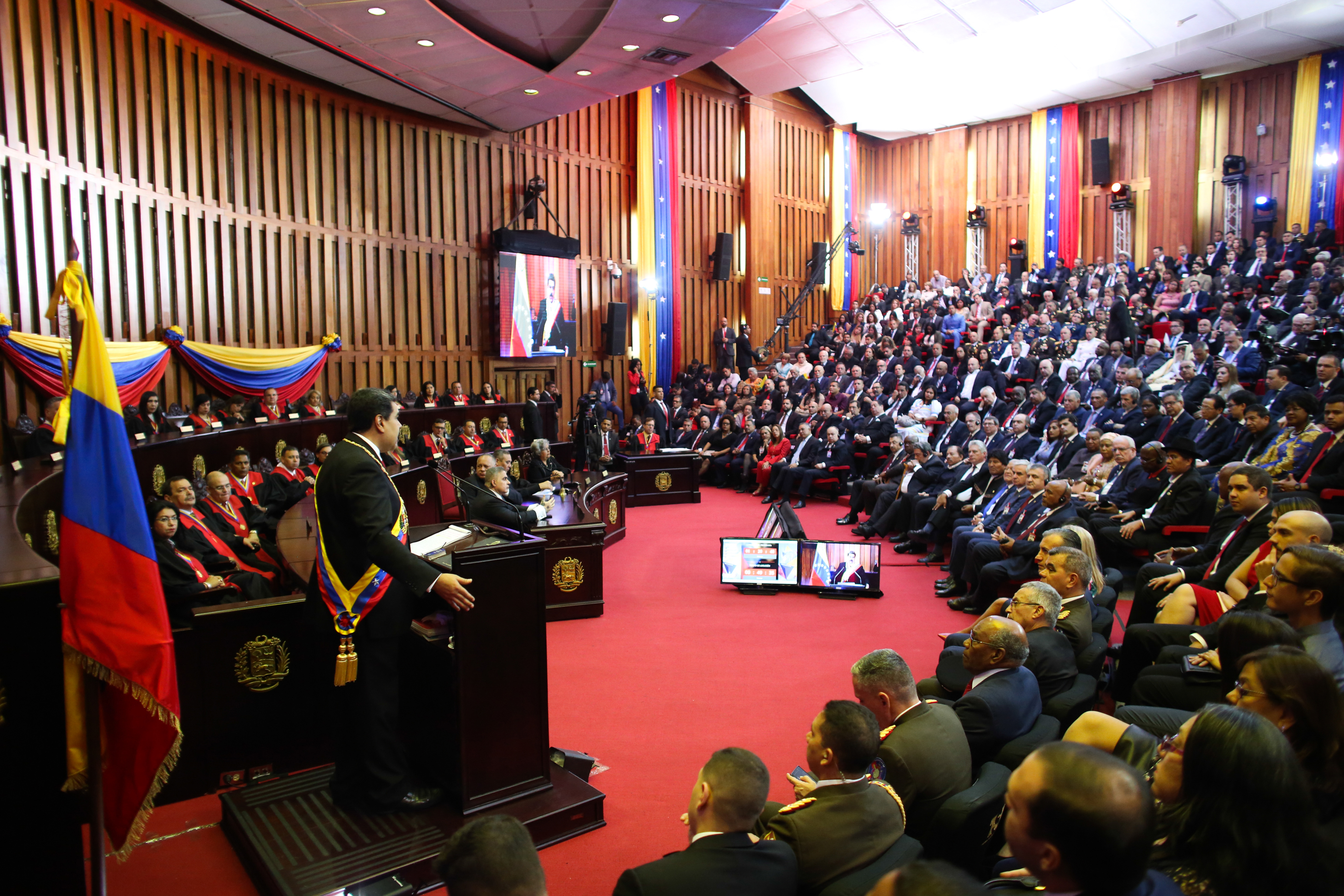 Proceedings inside the Supreme Court during Maduro's second inauguration in January 2019